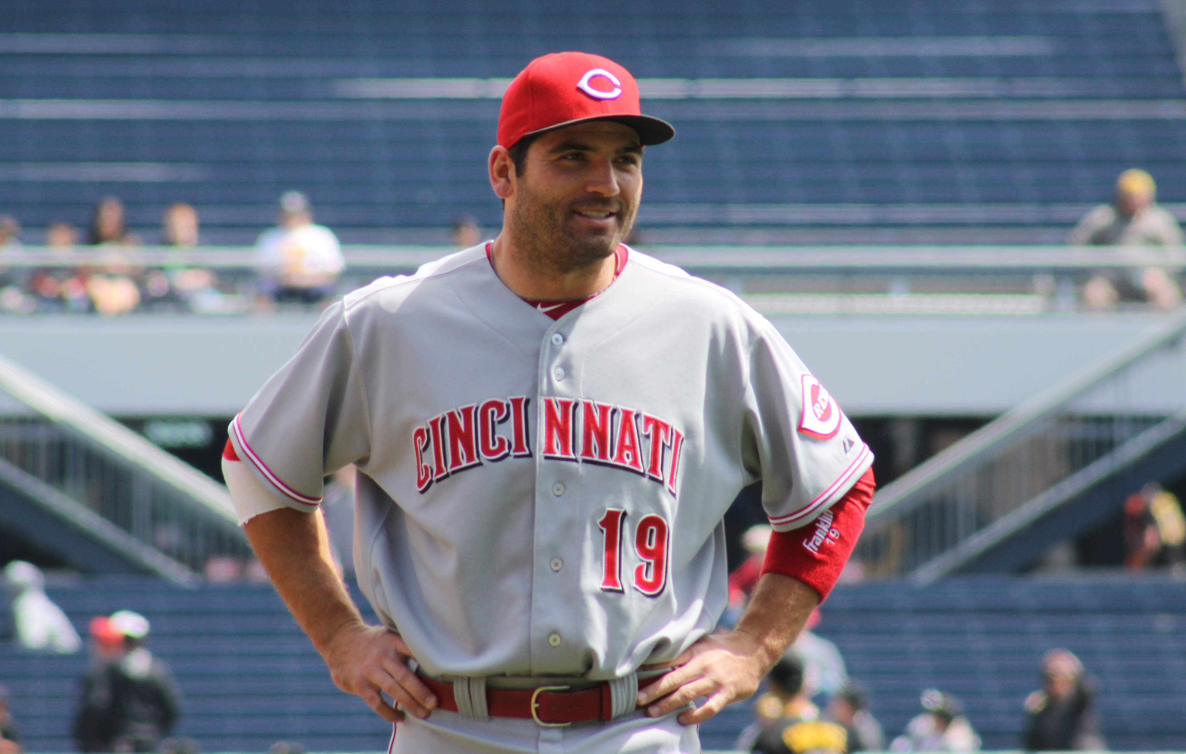 Joey Votto of the Cincinnati Reds.